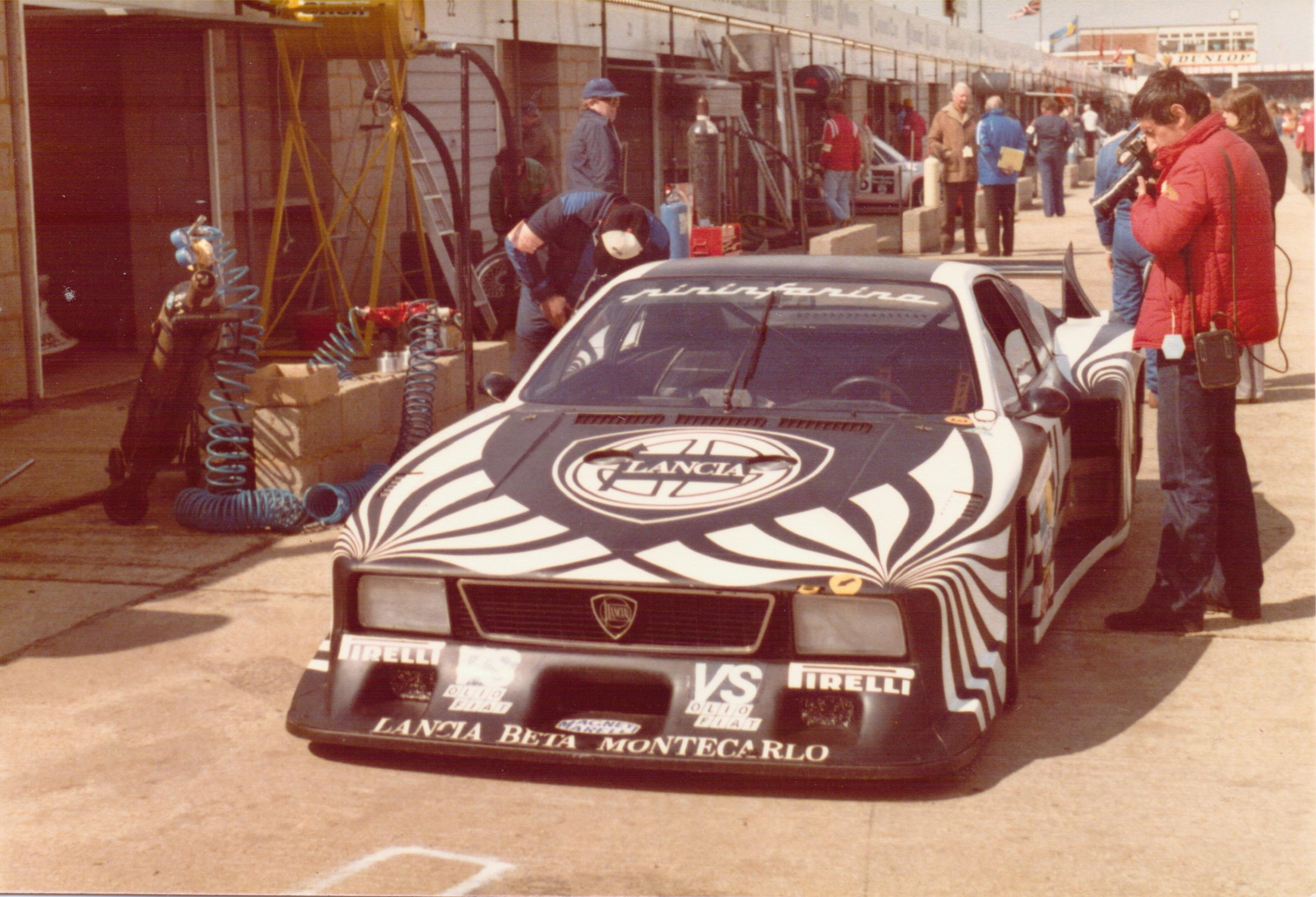 The Lancia Beta Monte Carlo of Patrese & Rohl at the Silverstone 6 Hour race on the 6th May 1979